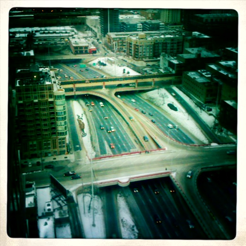 Washington Blvd and Randolph St crossing Interstate 94 in Greektown, Chicago, USA. Photo made with the "Hipstamatic" iPhone software.